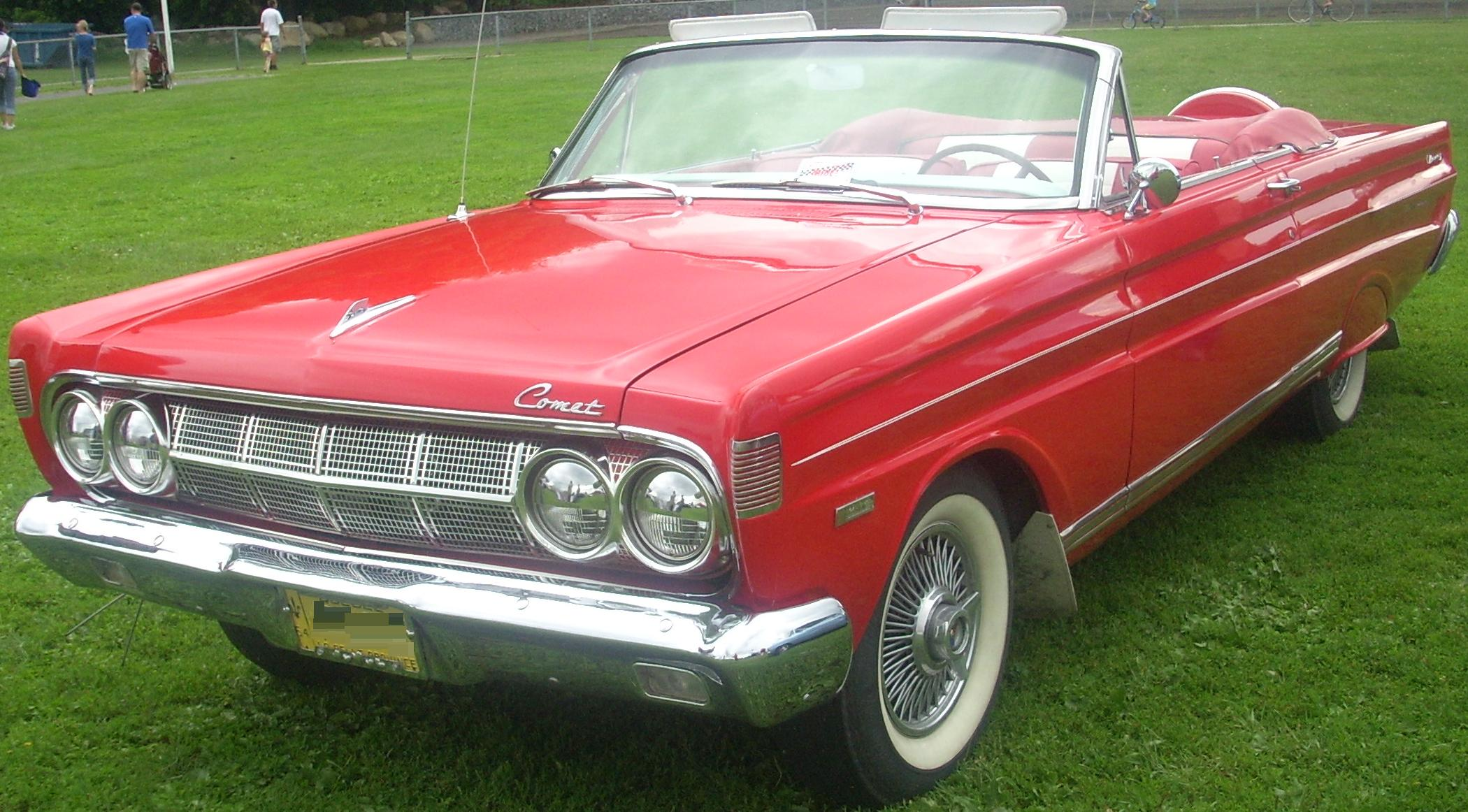 1964 Mercury Comet photographed in St. Lazare, Quebec, Canada at the 2010 St. Jean Baptiste Classic Car Show.